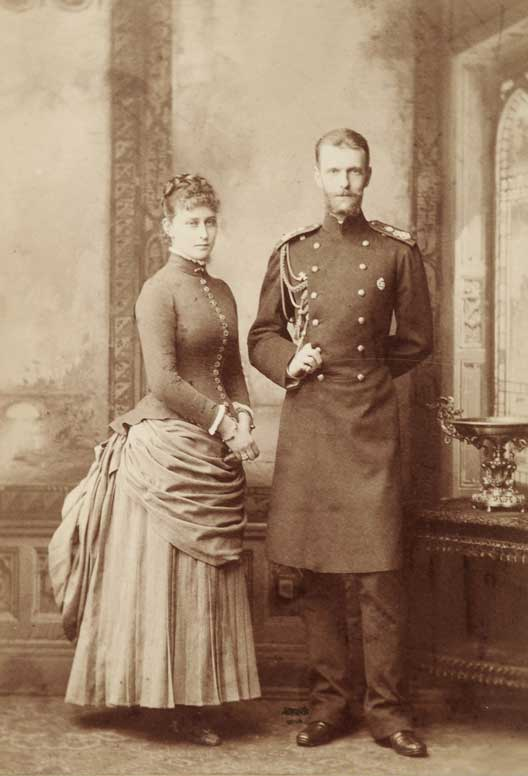 Sergei Alexandrovich with wife by Carl Backofen